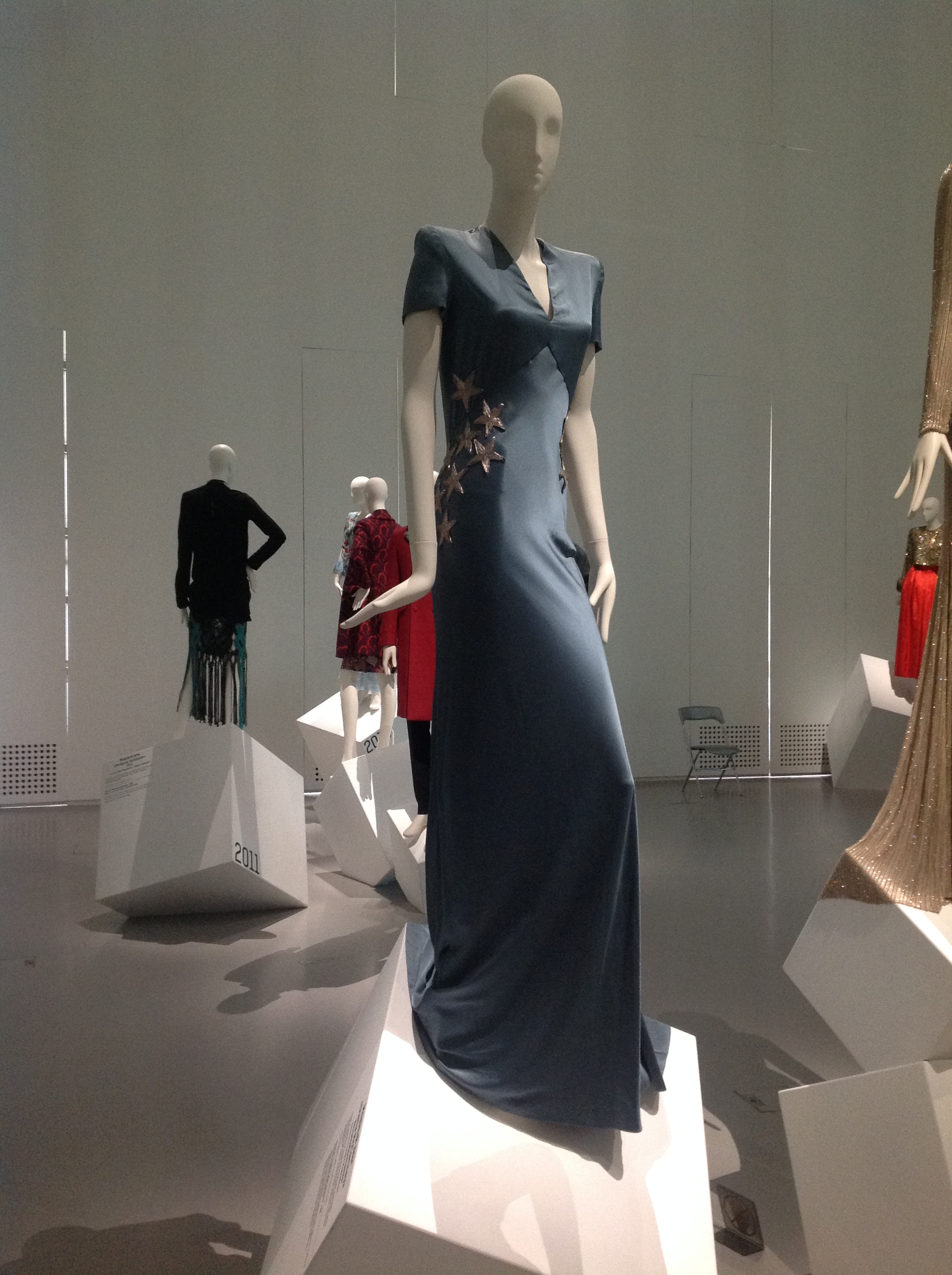 Dress design by Stella McCartney for Madonna MET Gala 2011 red carpet. Temporary Hermitage Museum ex. (23.11.2018 - 24.02.2019), St. Petersburg, Russia.